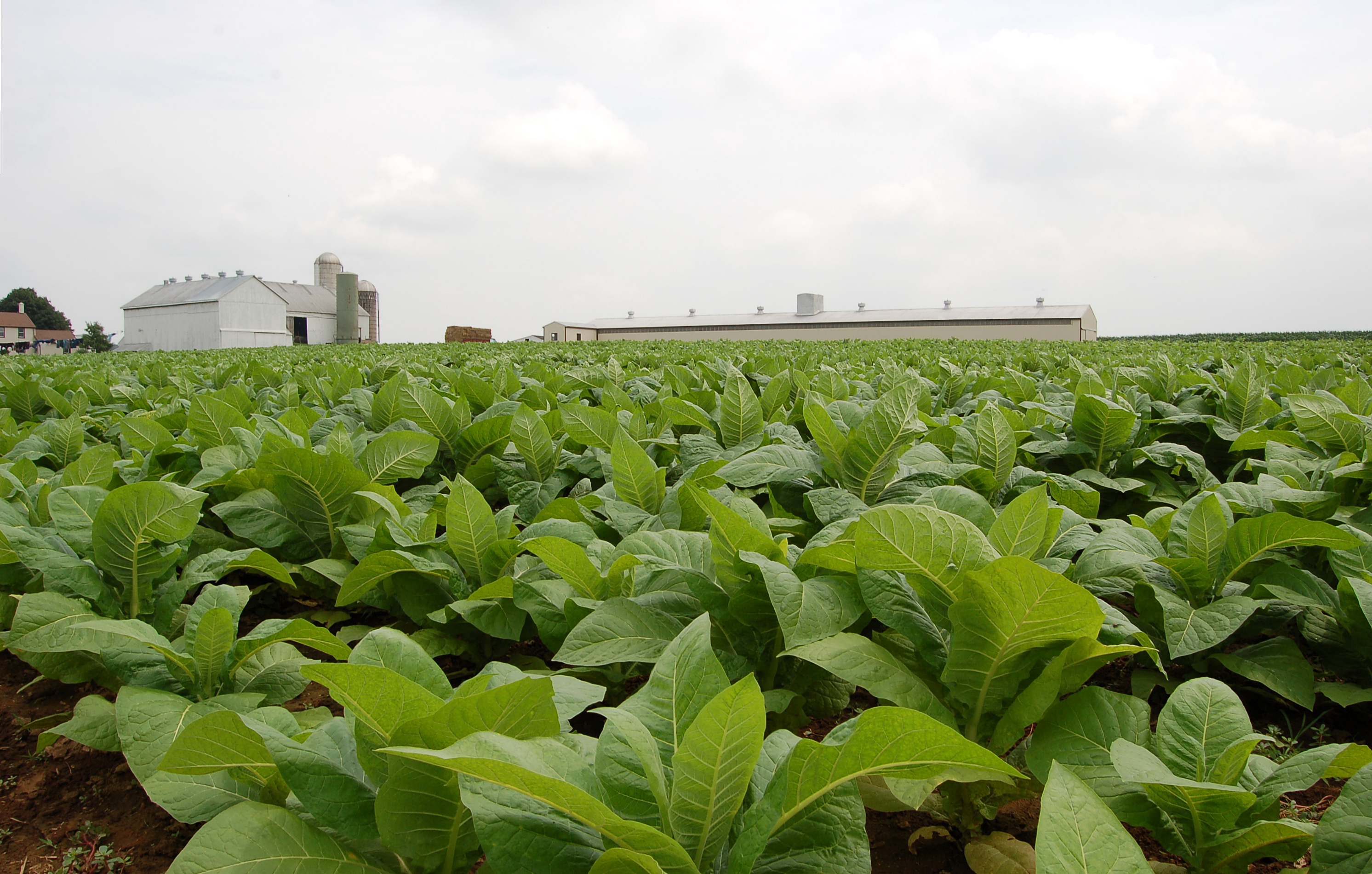 A field of Tobacco in Intercourse, Pennsylvania.